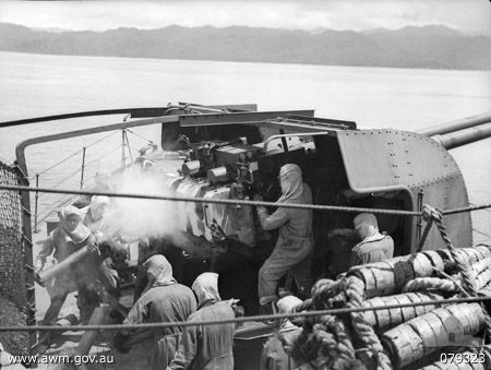 Australian War Memorial (AWM) catalog number 079323 HMAS Swan firing on Japanese positions in the But-Kuak area between Aitape and Wewak, New Guinea.